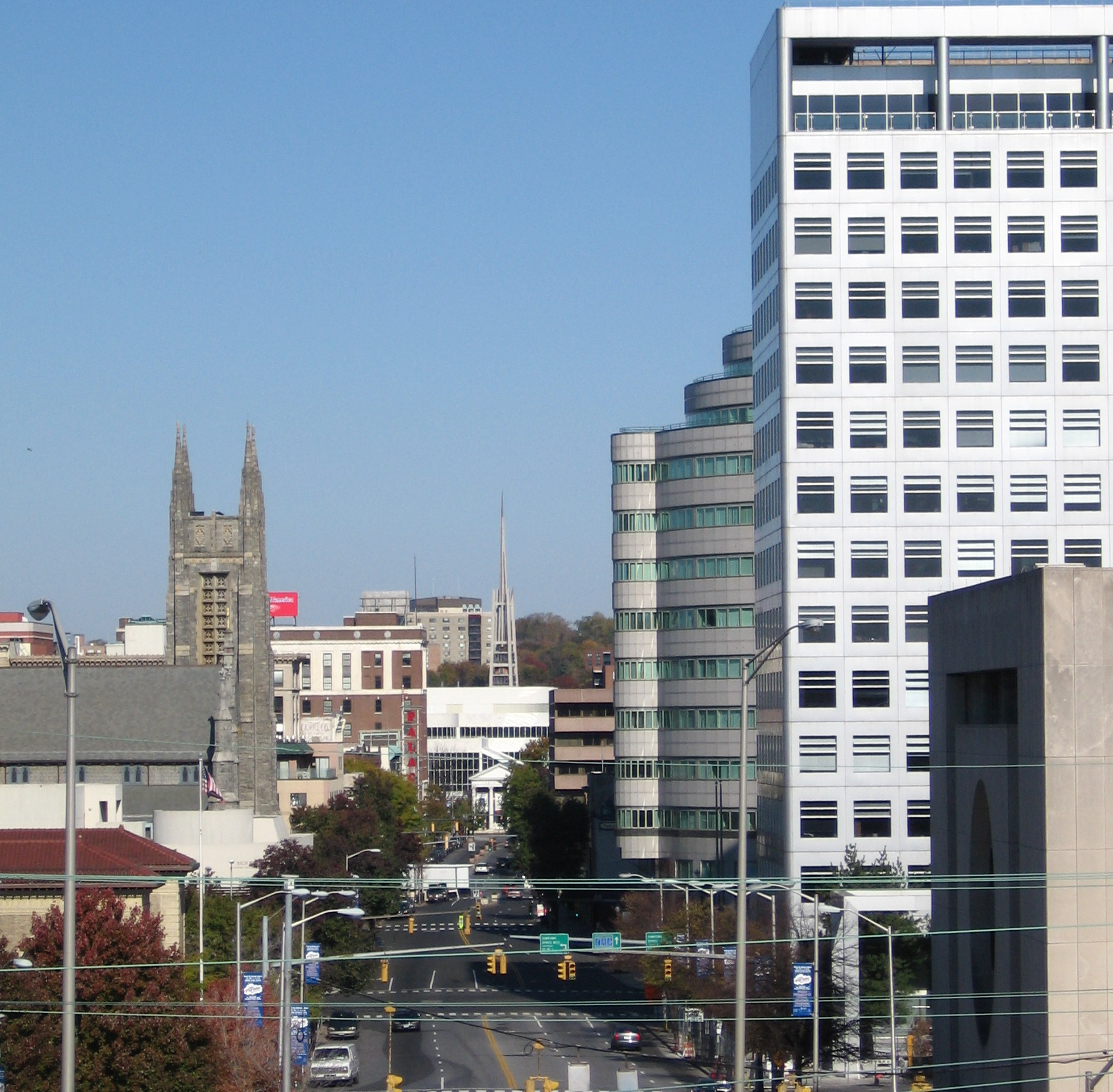 Looking north on Atlantic Street in Downtown Stamford, Connecticut as seen from the roof of the parking garage at Stamford (Metro-North station), across Interstate 95. Visible in the picture (left side of street) is the Downtown Stamford post office (red roof), Rich Forum (low, white building) St. John's Roman Catholic Church and One Atlantic Street (a 1931 building long the tallest structure in Stamford). At the end of the street, the classical columns and pediment of Ferguson Library and, behind it, the steeple of the modern First Presbyterian "Fish" church on Bedford Street.